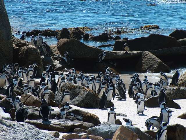 Spheniscus demersus, Boulders Beach, Cape Town